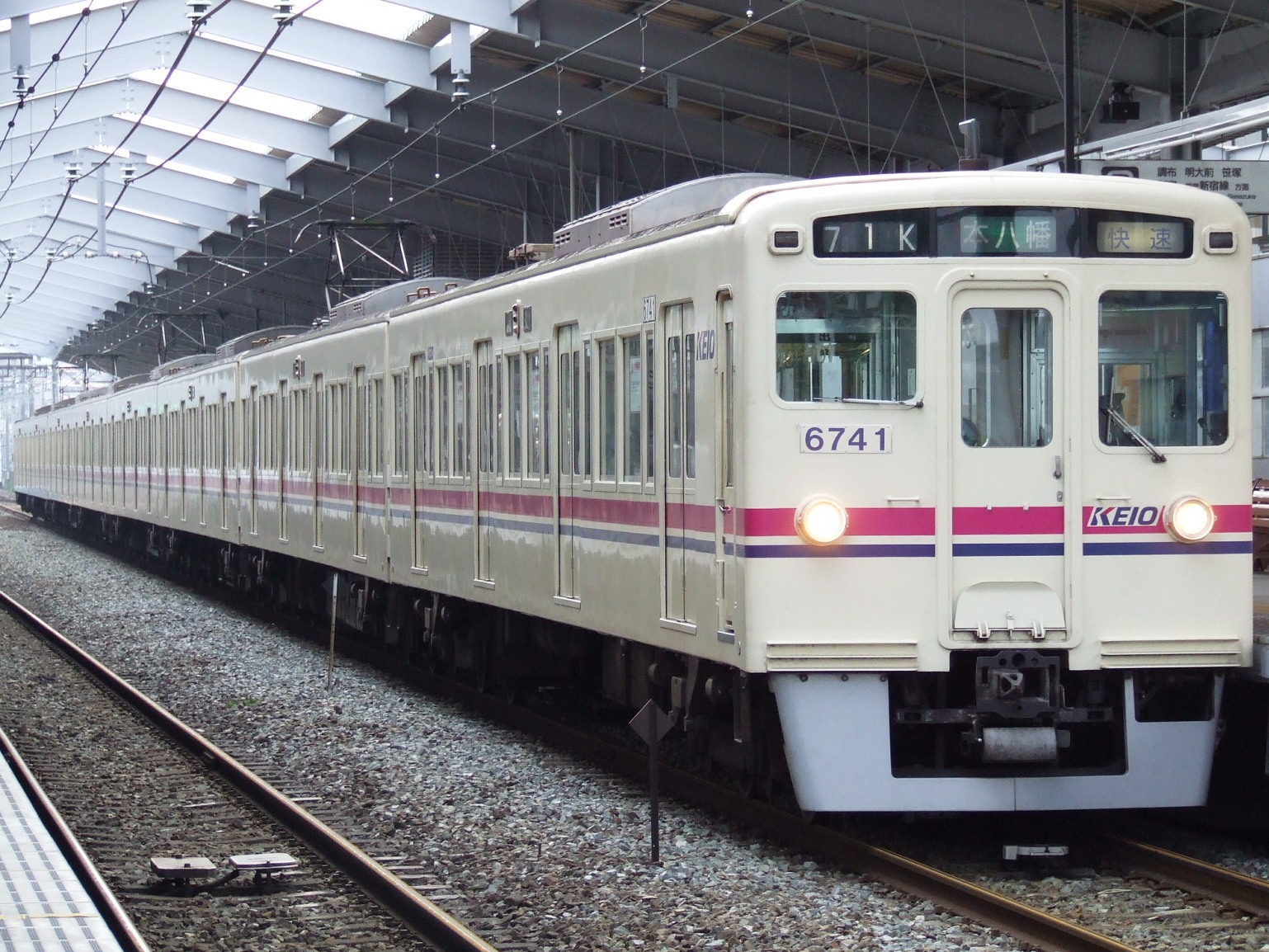 Model 6030 Keio Corporation Taken at Keio Tama Centre station